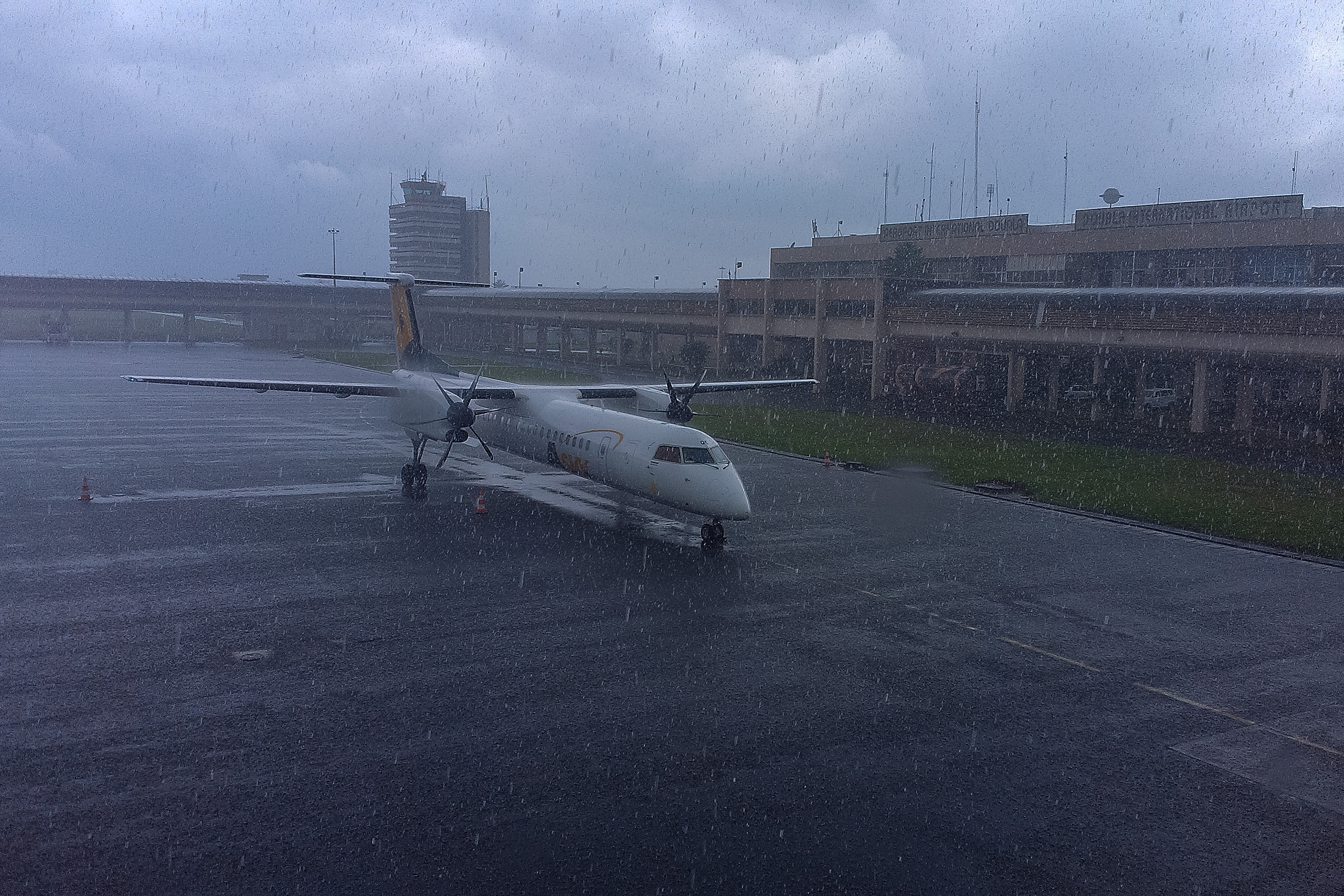 ASKY Airlines Q400 airplane at the airport in Douala, Cameroon.